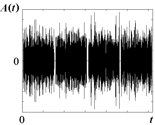 OFDM Pulse waveform